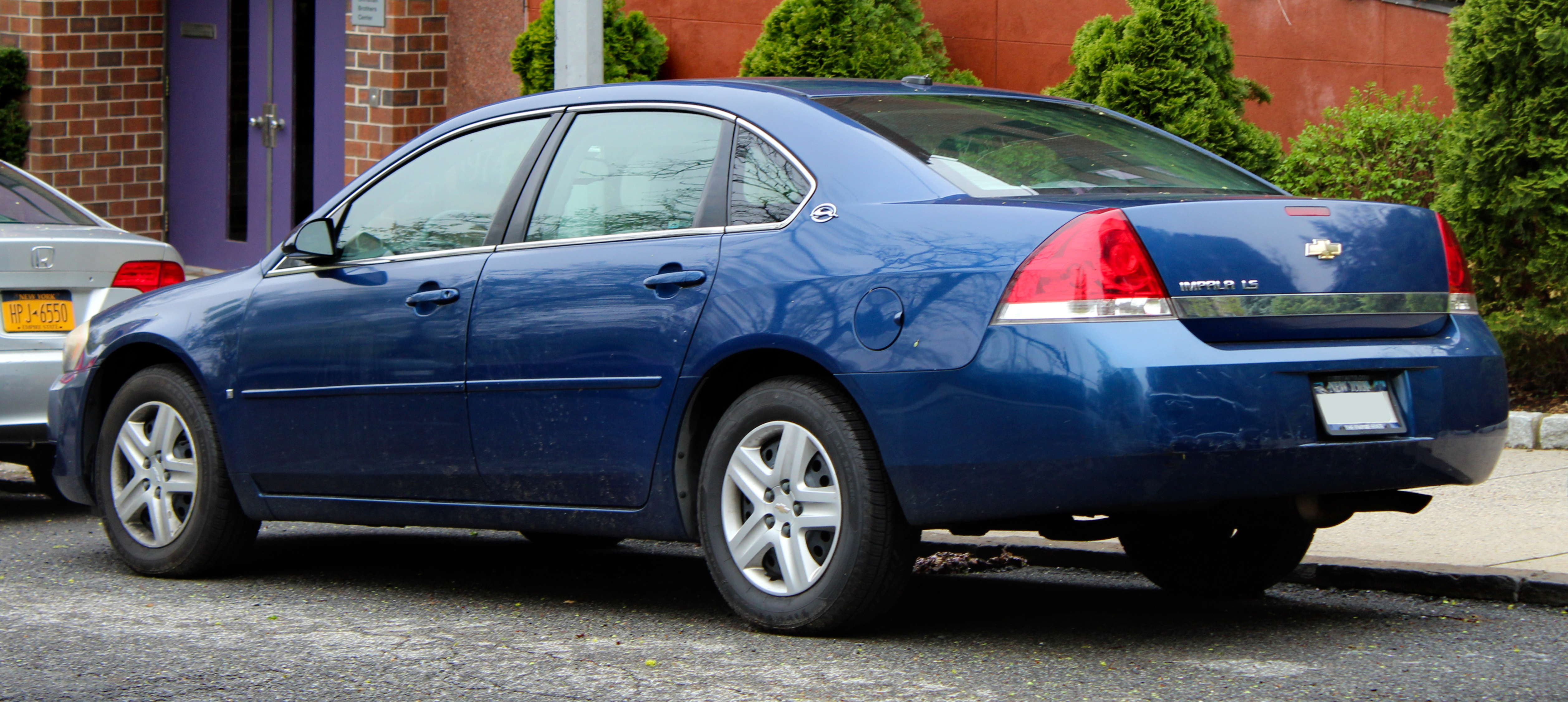 A 2006 Chevrolet Impala photographed in Bronx, New York, USA